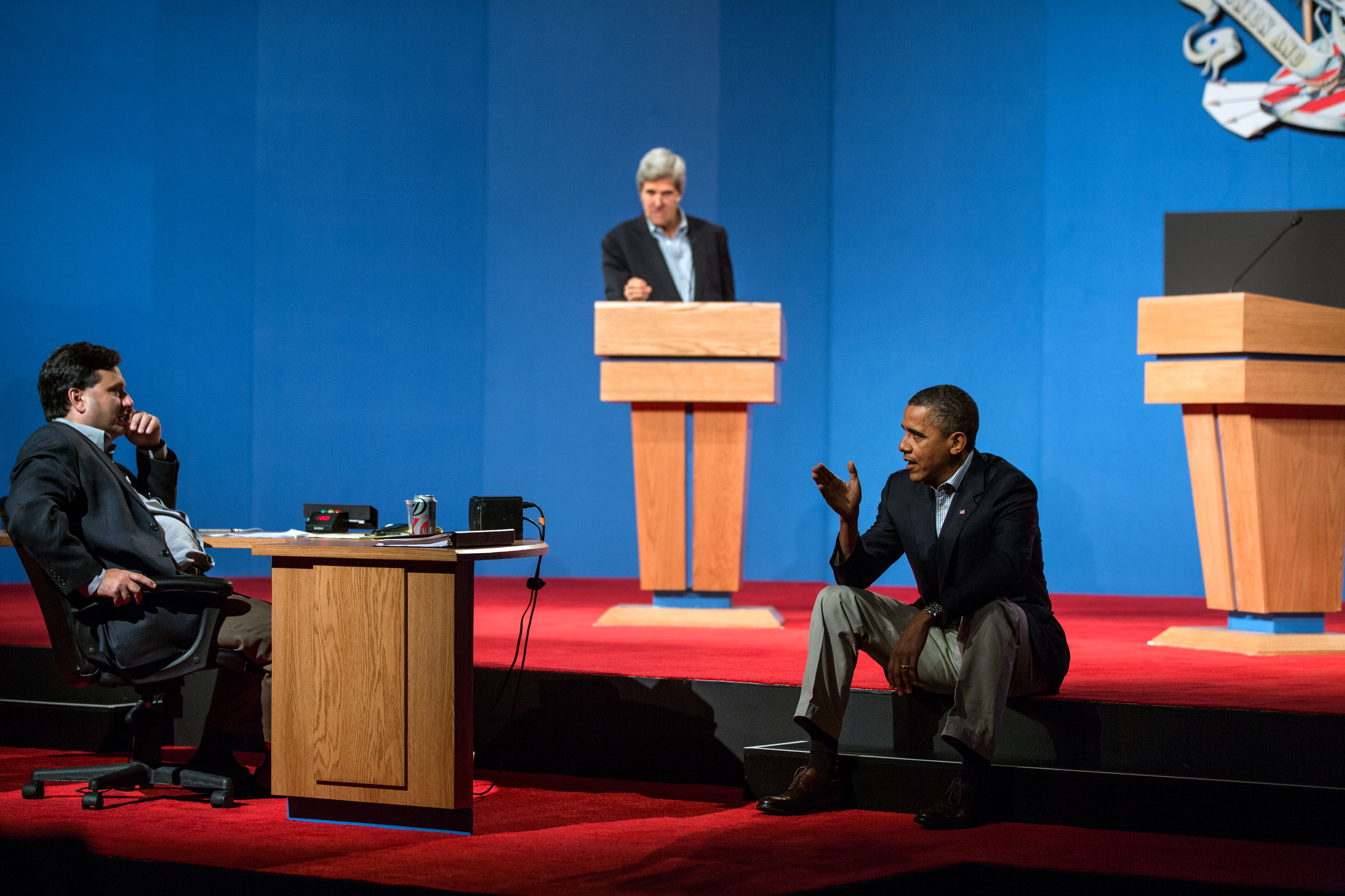 United States President Barack Obama talks with Ron Klain during presidential debate preparations in Henderson, Nevada on 2 October 2012. Senator John Kerry, background, played the role of Mitt Romney during the preparatory sessions.